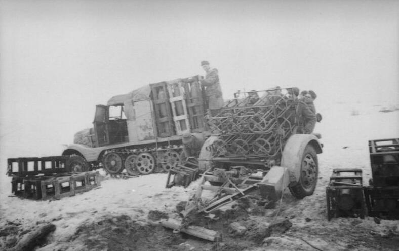 Information added by Wikimedia users.